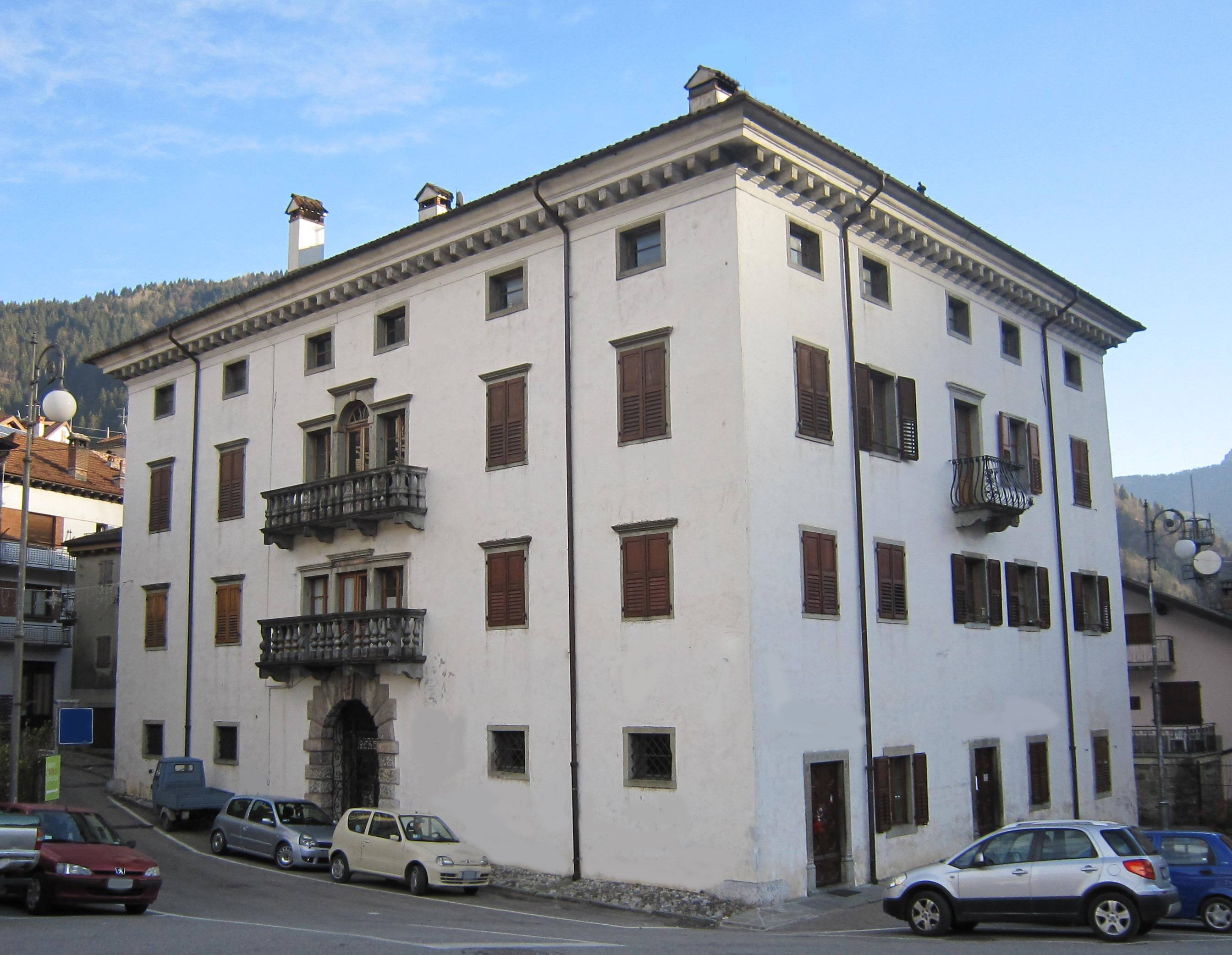 palazzo fabiani